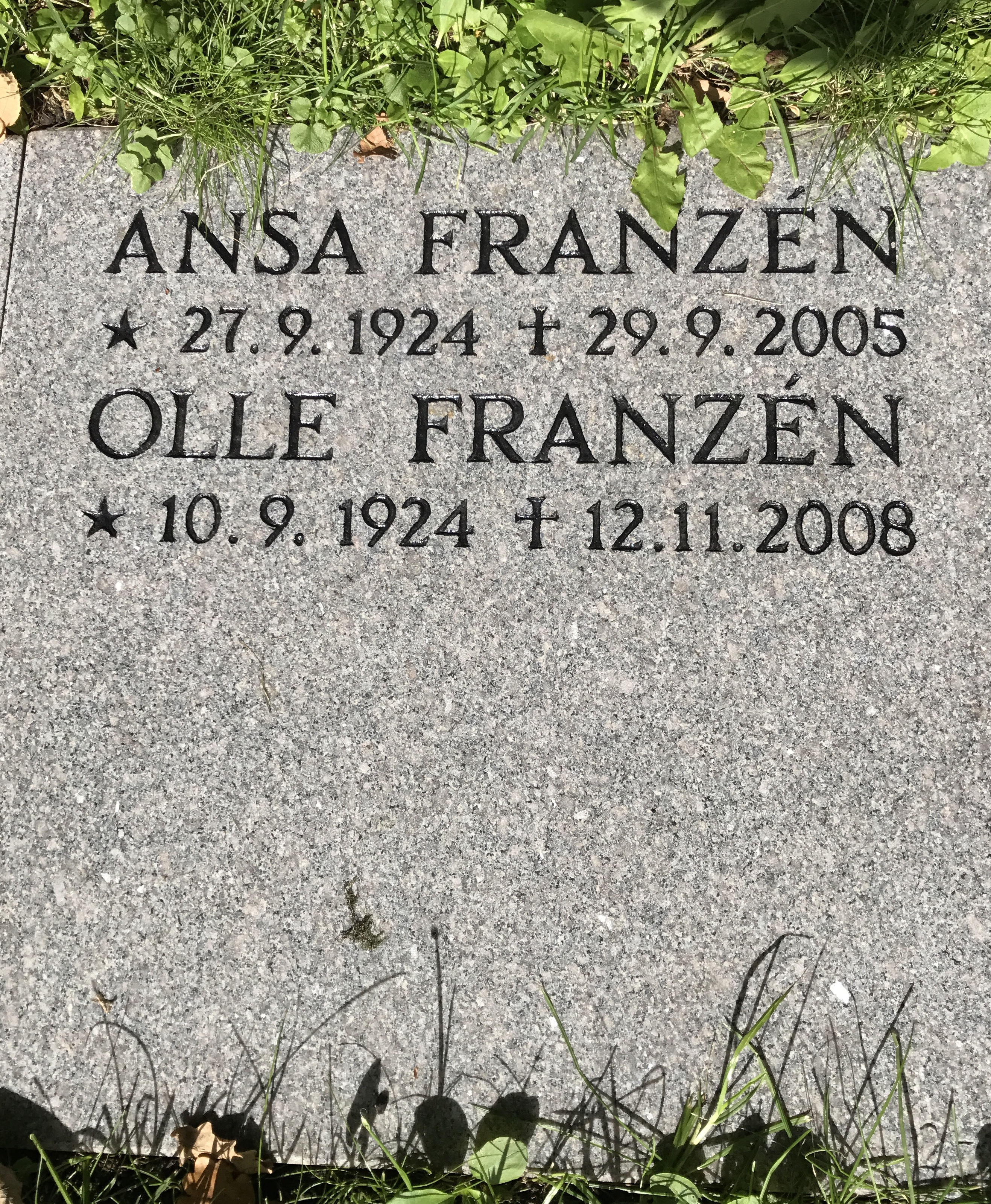 Grave Olle Franzen